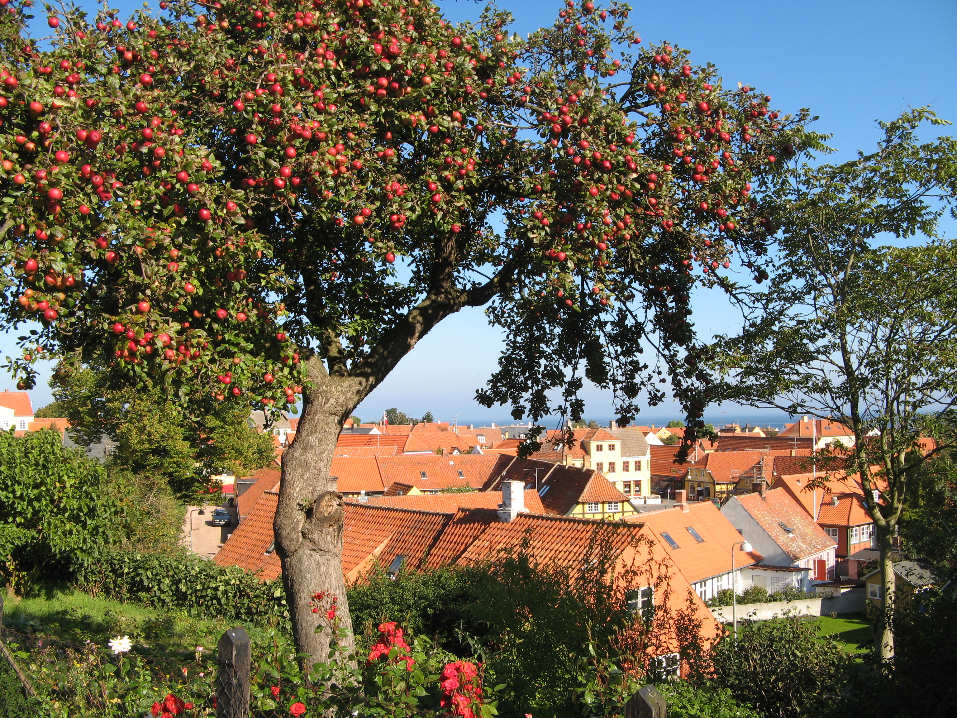 Svaneke View of the market